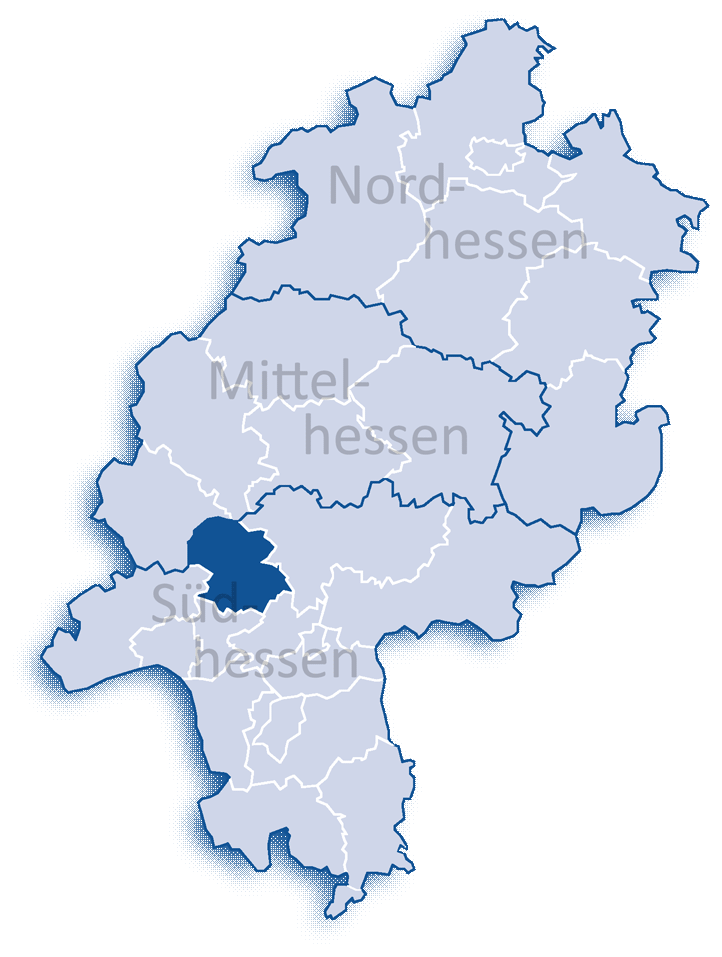 The map shows the district Hochtaunuskreis. A district in Hesse